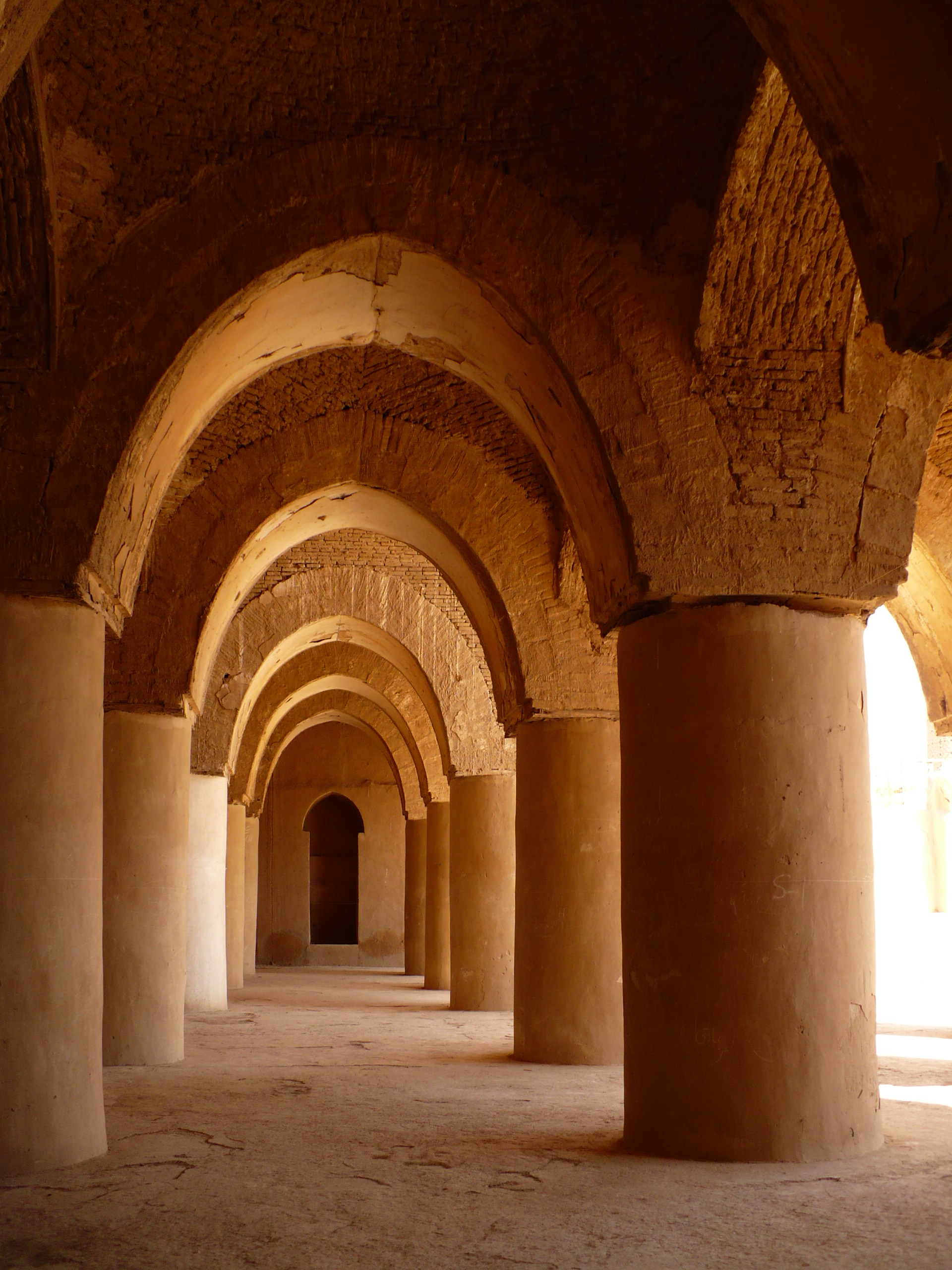 Tarikhaneh mosque in Damghan, the probably oldest mosq in Iran.